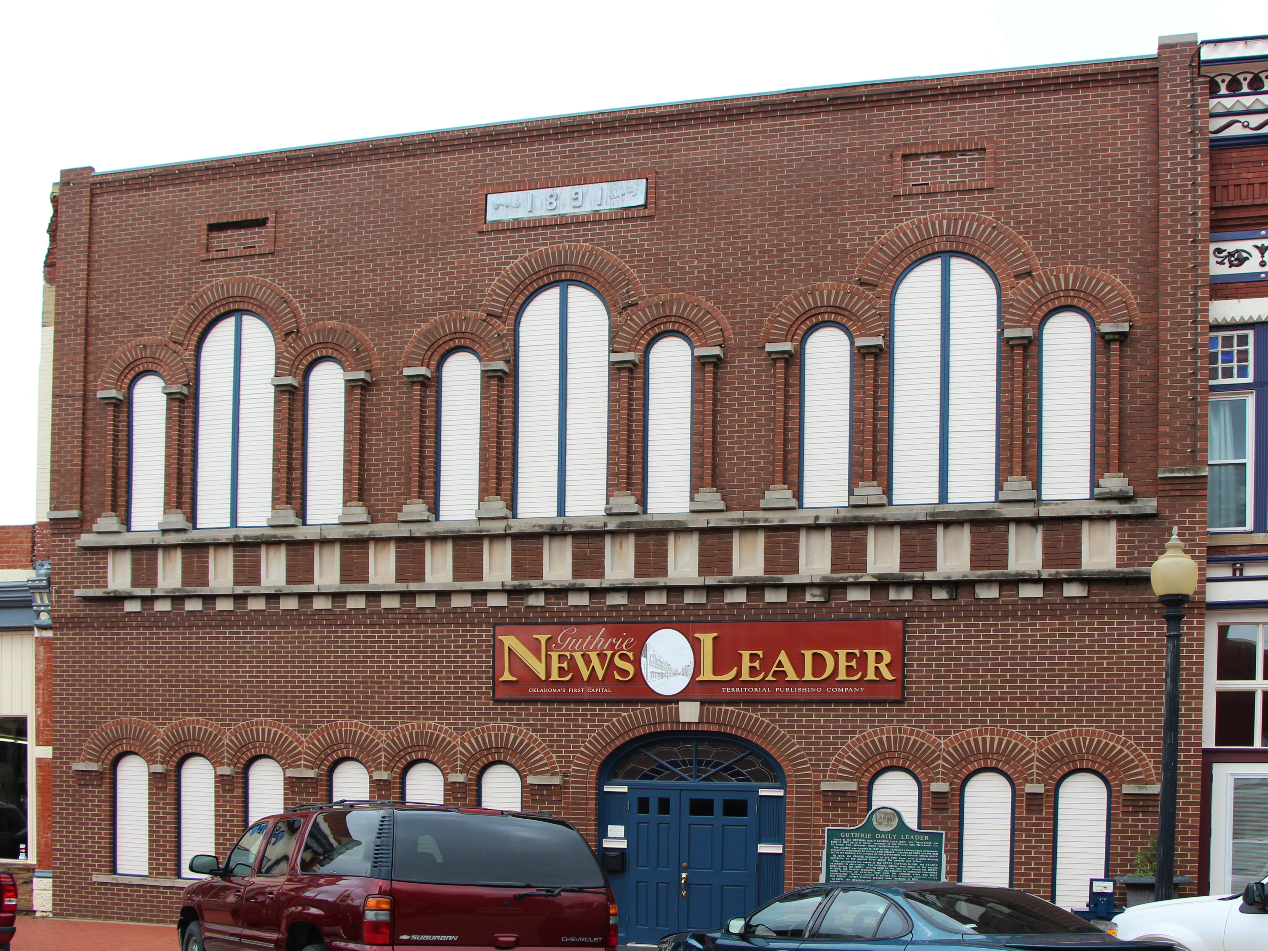 Guthrie News Leader Building, Guthrie, Oklahoma